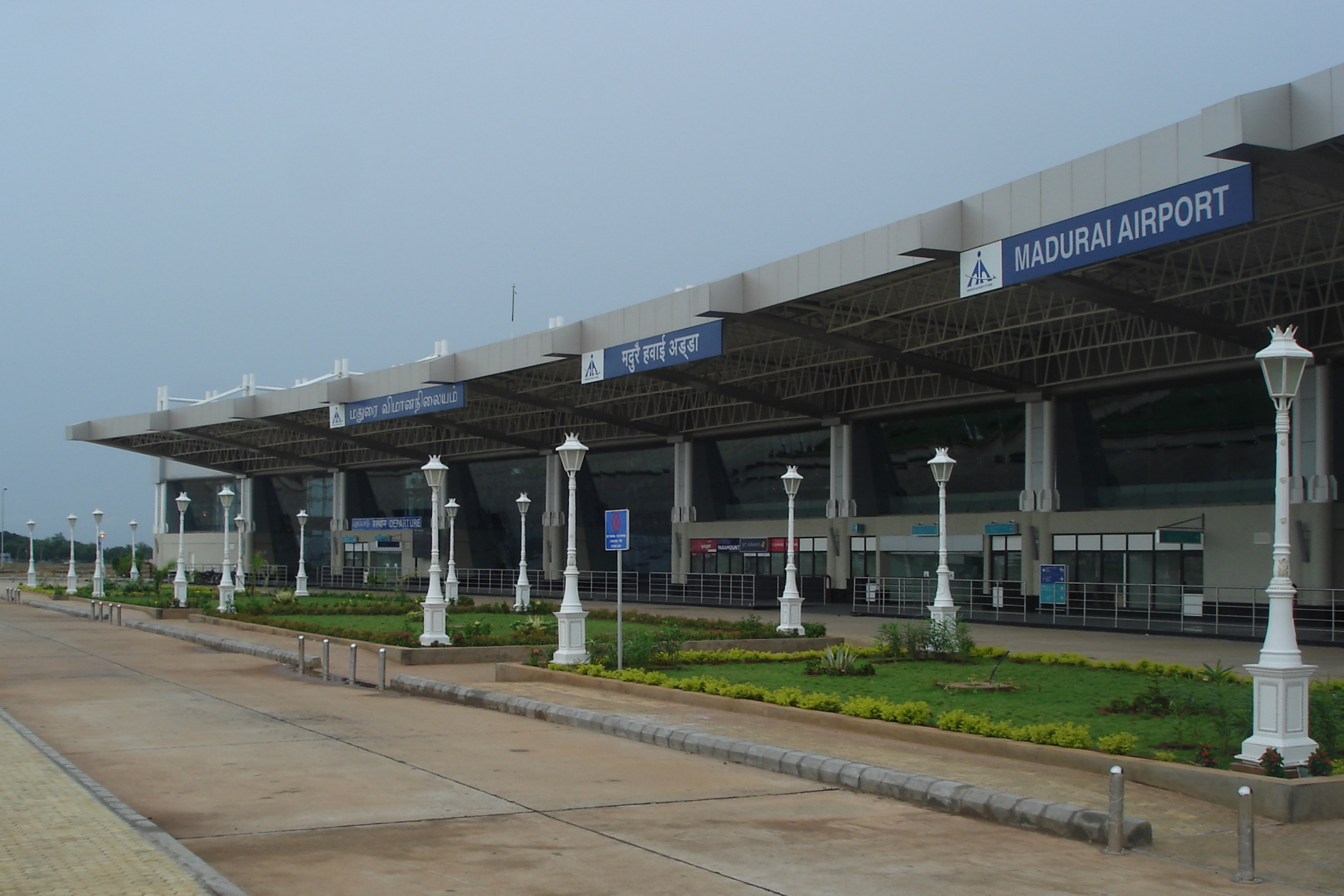 This picture shows the Madurai Airport's New Terminal [Unfinished in This Photo].